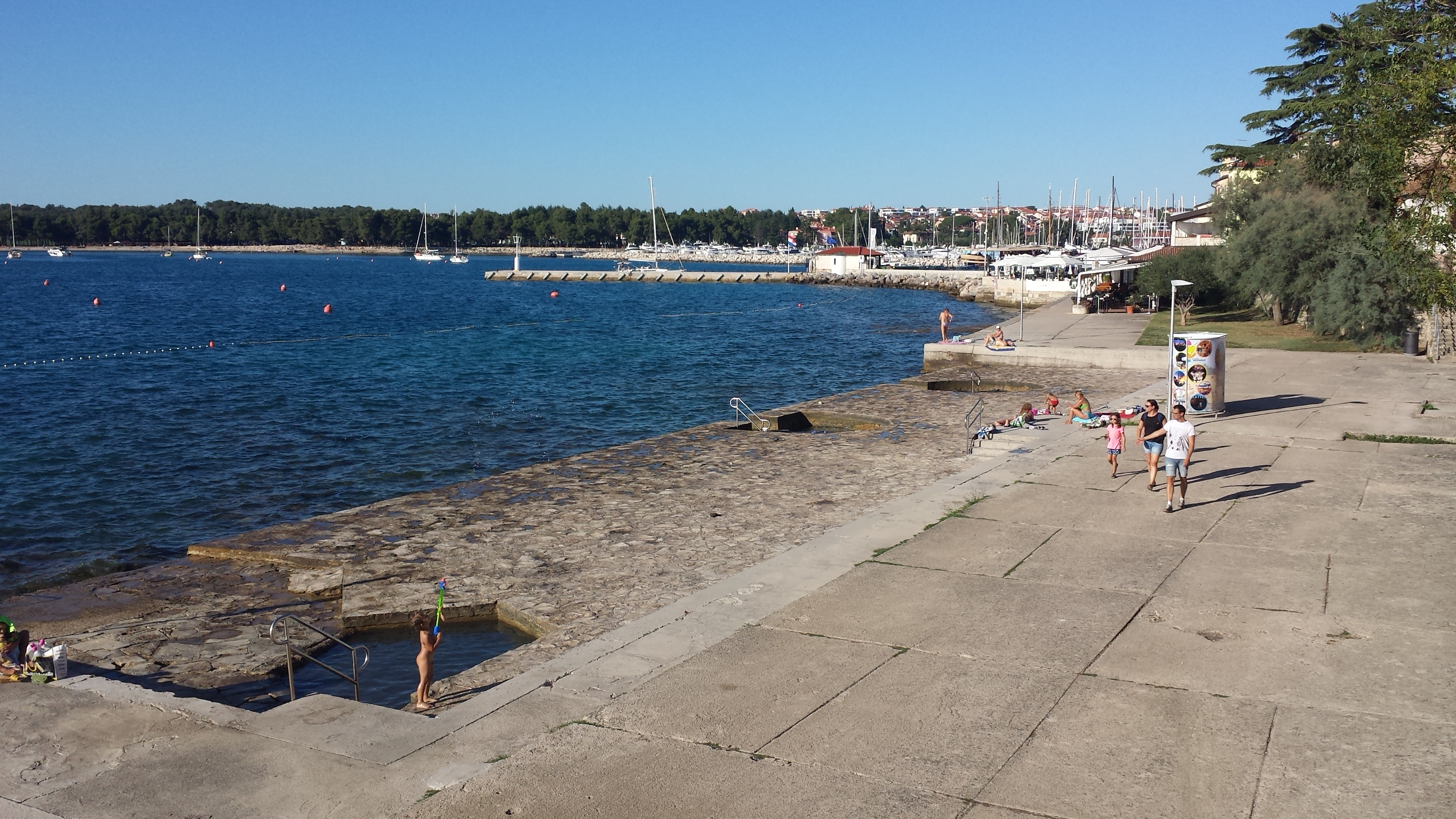 Croatia Novigrad town beach